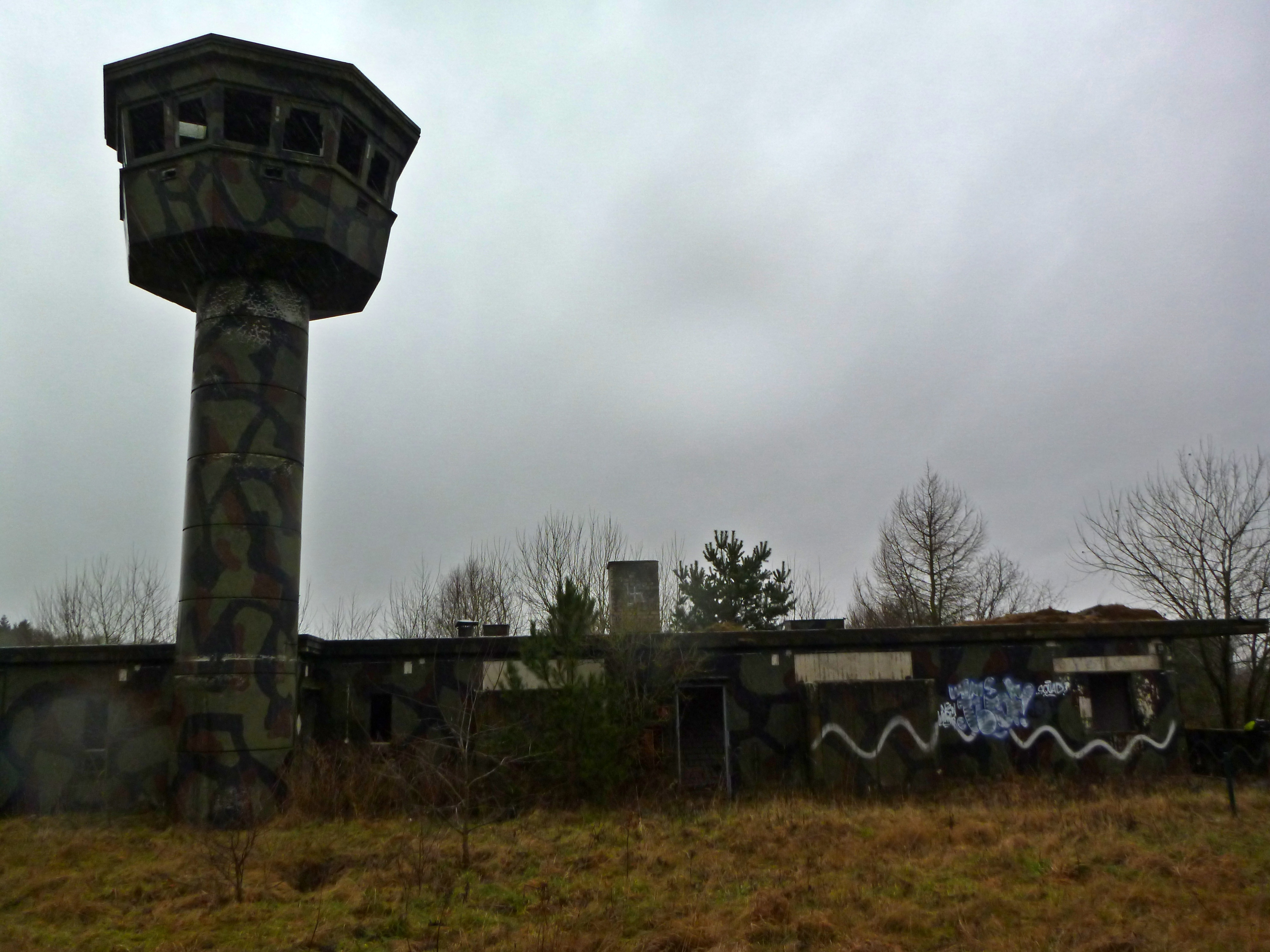 Former watch tower of the Special Ammunition Site Kellinghusen